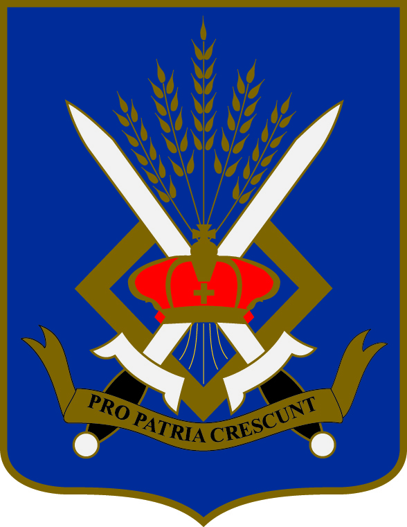 Two crossed swords on a blue background, ears of corn, a king's crown, a diamond and a banner with the latin text "pro patria crescunt" or "growing up for the homeland ".